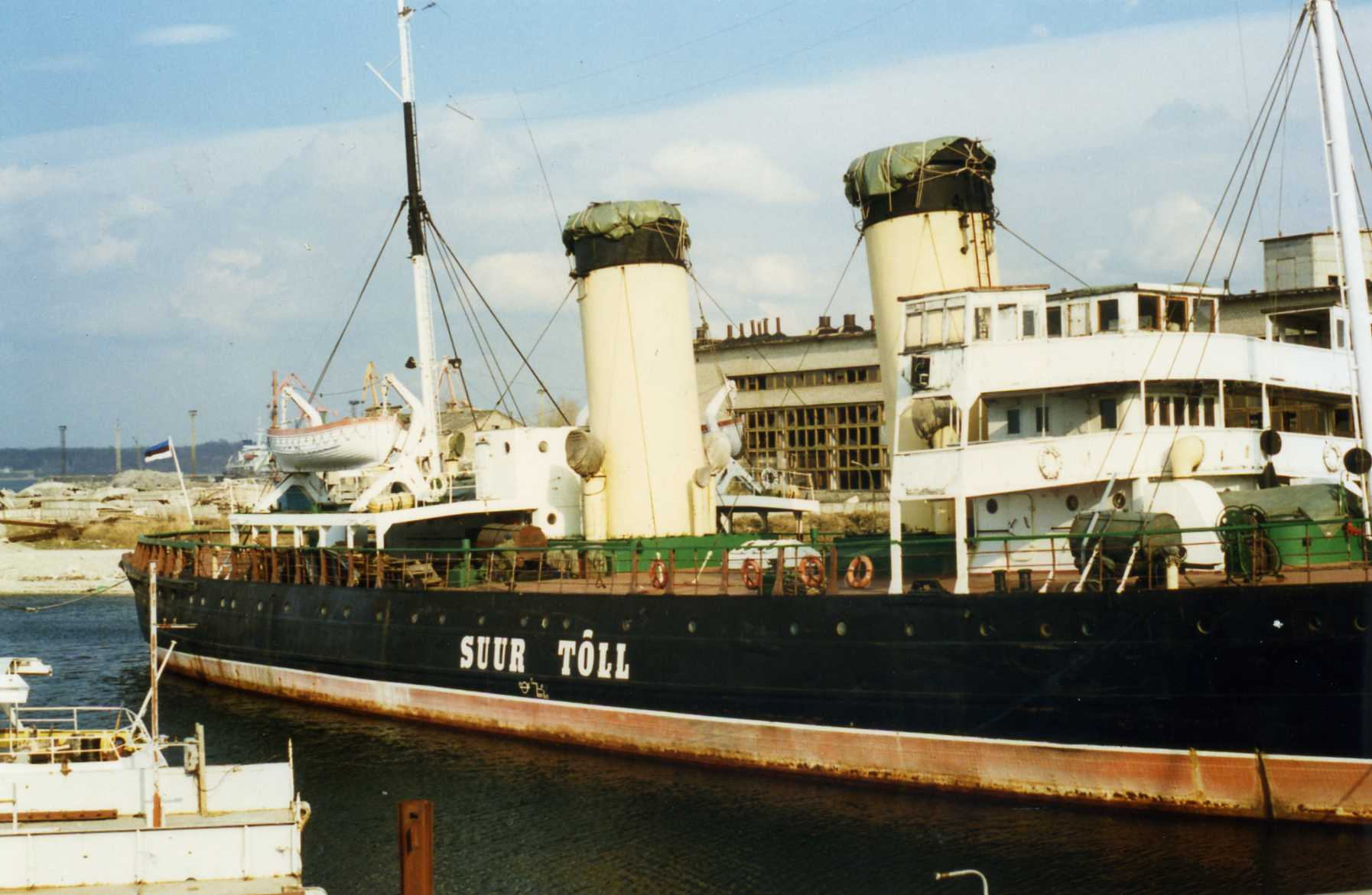 Pre-World War I icebreaker which was returned to Estonia in 1988 and is now part of the Eesti Meremuuseum. , the Estonian Maritime Museum. Built in 1914 in the Vulkan-Werke in Stettin , Germany (now Szczecin) as the Tsar Mikhail Feodorovich